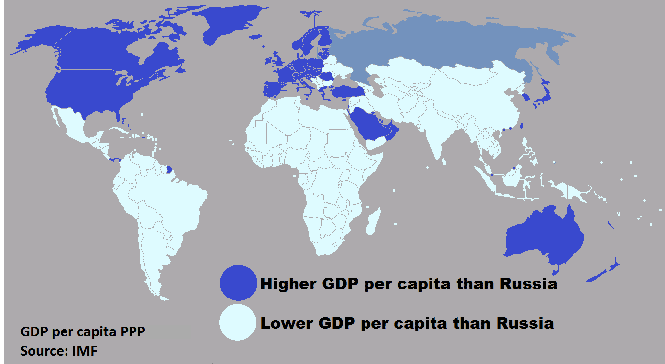 The Map shows countries who have higher or lower GDP per capita PPP than Russia. Based on the IMF figures. Source (2017)